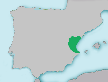 Distribution map of Luciobarbus guiraonis in Iberian Peninsula.